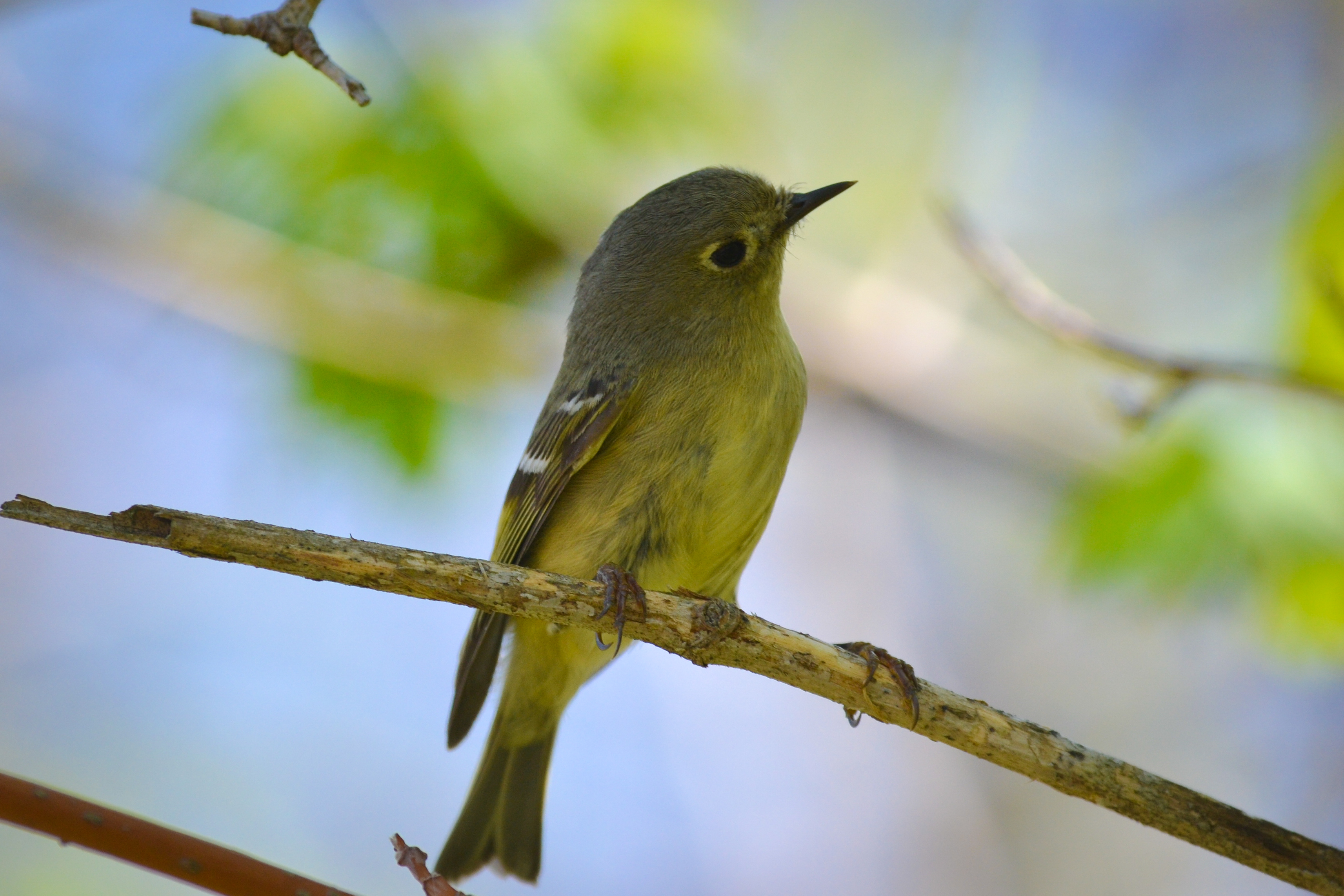 Ellis Lake Wetlands, Fairfield, Ohio